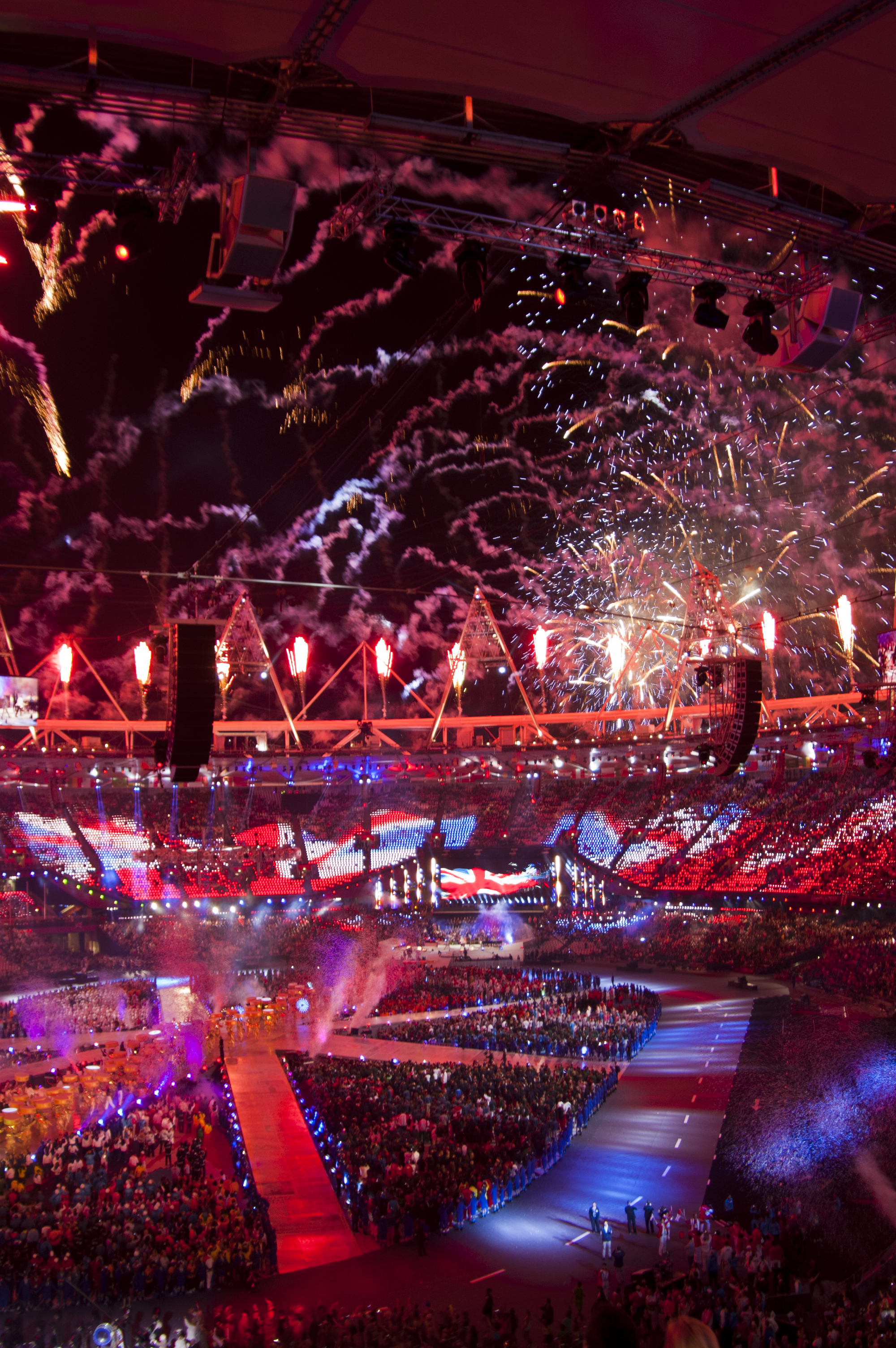 Closing Ceremony